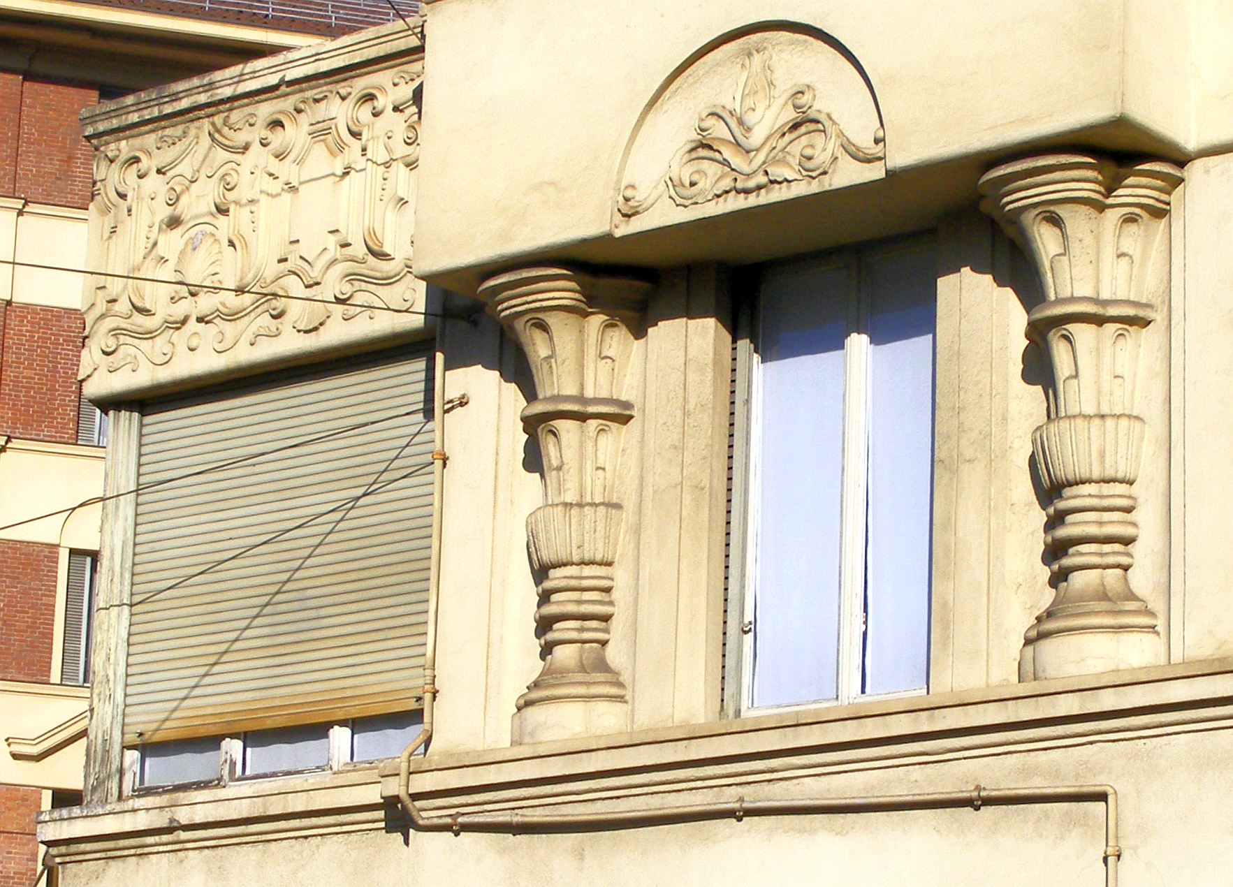 Torri Rivella, eastern building's window (Turin, Italy)